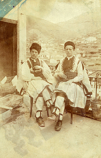 Todor Kushev and Petar Krepiev in Veles